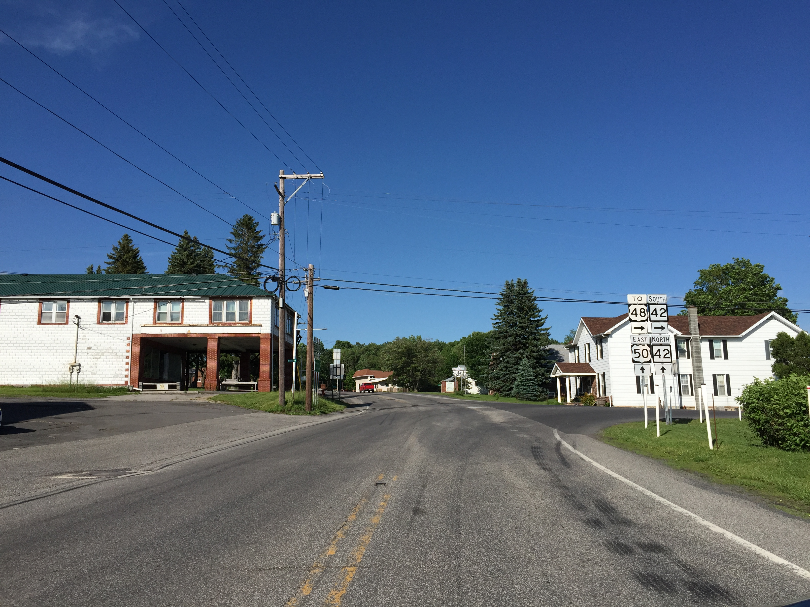 View east along U.S. Route 50 (George Washington Highway) at the junction with West Virginia State Route 42 (Union Highway) in Mount Storm, Grant County, West Virginia